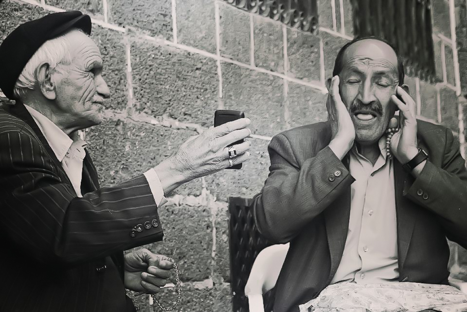 Dengbesh storytellers/singers in Dyarbakir, Turkey.